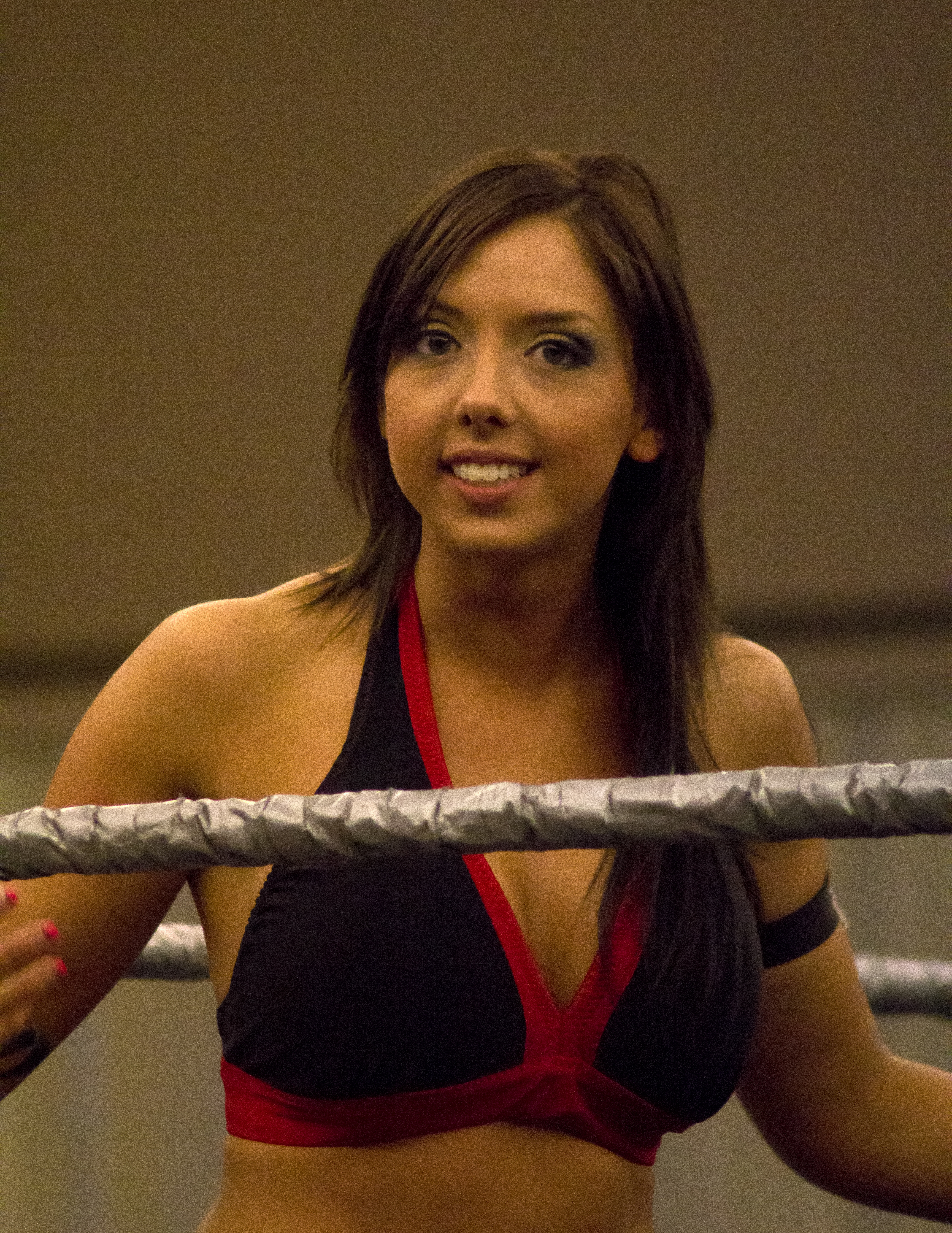 Professional wrestler Cherry Bomb at a Maximum Pro Wrestler event in March 2011